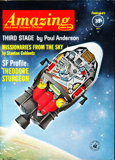 Cover of Amazing Stories, February 1962